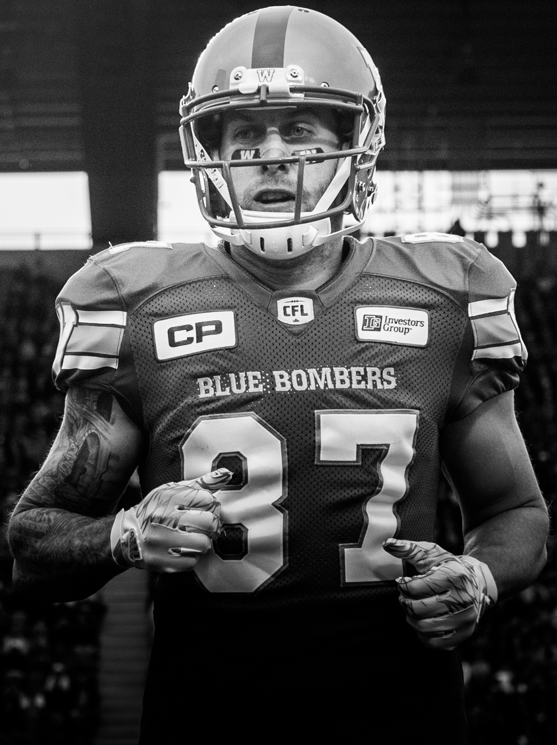 Rory Kohlert (87) of the Winnipeg Blue Bombers during the pre-season game at TD Place in Ottawa, ON on Monday June 13, 2016. (Photo: Johany Jutras)